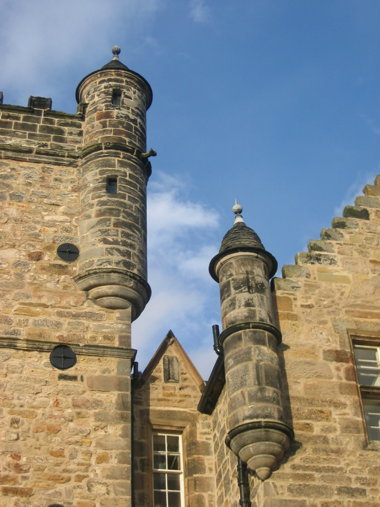 Pinkie House, Musselburgh, East Lothian, Scotland